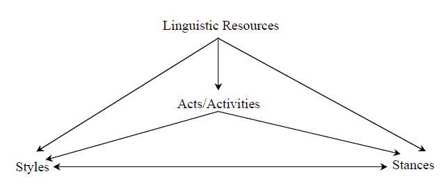 A diagram of the relationship between stance and style.